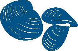 Marine Institute Ireland, Environmental Food Services Sector Symbol